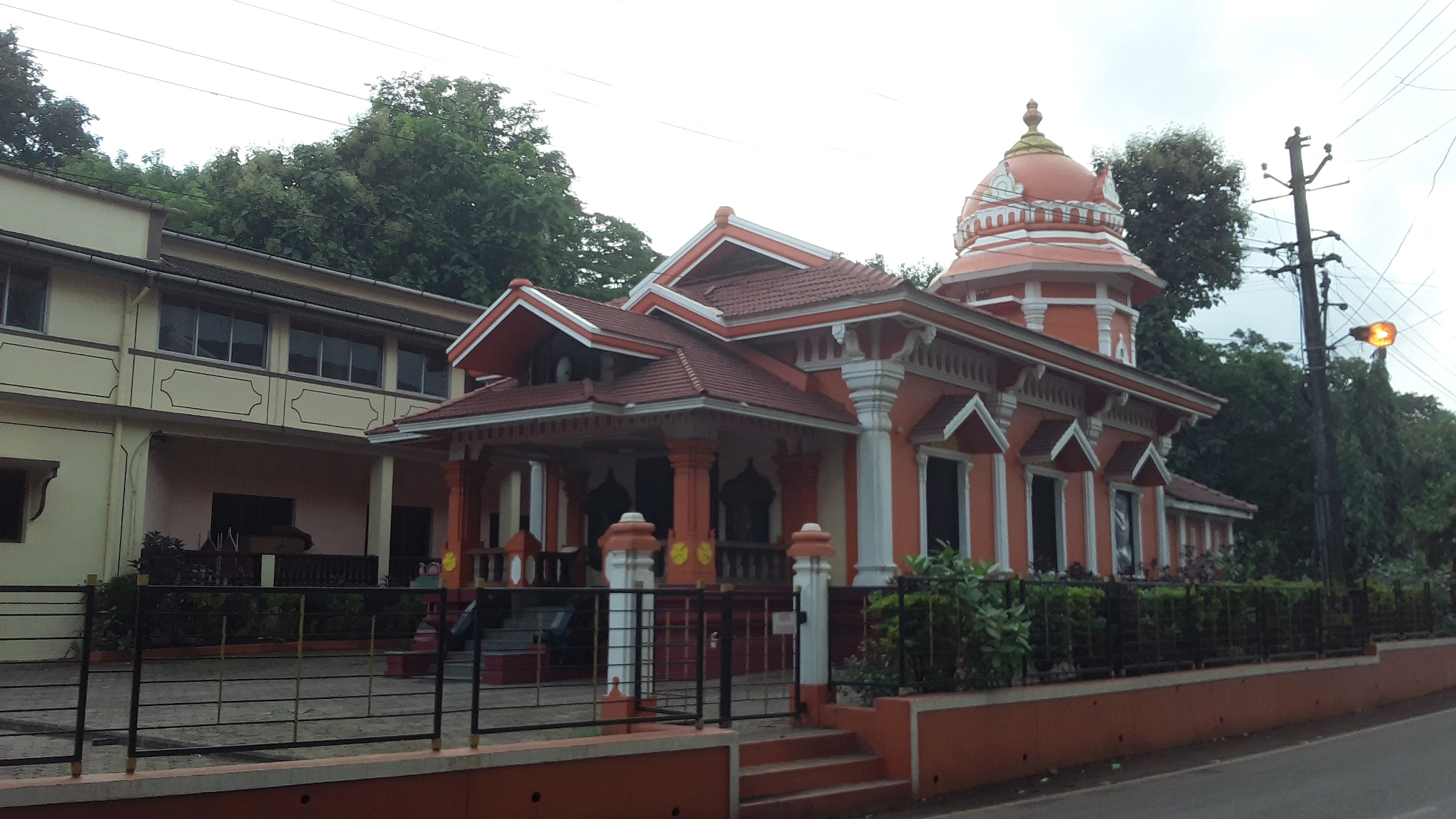 Sri Hanuman Mandir located at Bus Stand Road, Ponda.